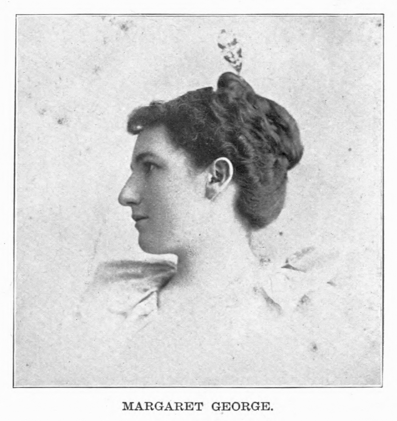 Portrait of Margaret Gilman George, American poet and author, early sweetheart of poet Edgar Lee Masters, second wife of William T. Davidson, editor of the Fulton Democrat.